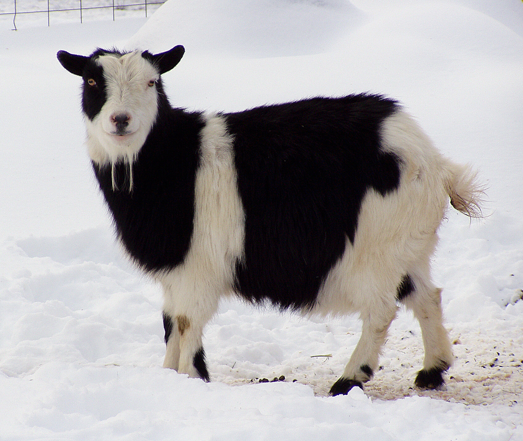 Description: Nigerian Dwarf Goat (Capra aegagrus hircus) Location: Farm in Greater Madawaska Township, Ontario, Canada Date: 2005-12-19 Source: picture taken by Danielle Langlois Licence: Released under GFDL and Creative Commons licenses by the photographer